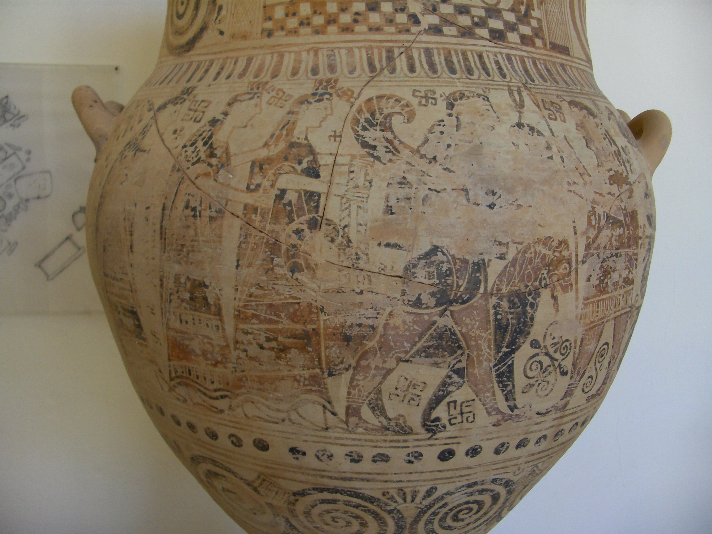 "Melian amphora" with the judgement of Paris (belly) and rider (neck).Detail on the belly with the judgement of Paris.